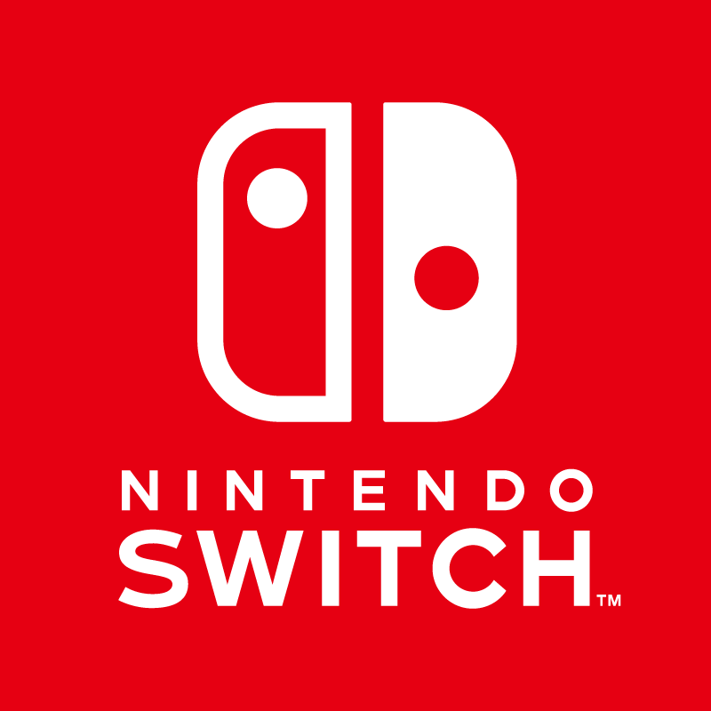 Red Logo of Nintendo Switch